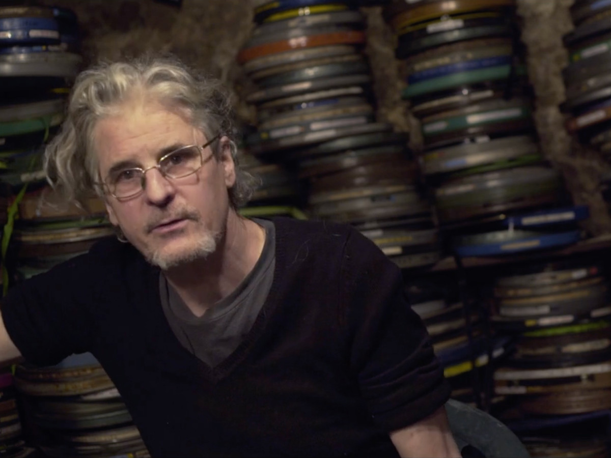 Craig Baldwin at Artists' Television Access in San Francisco, California, United States